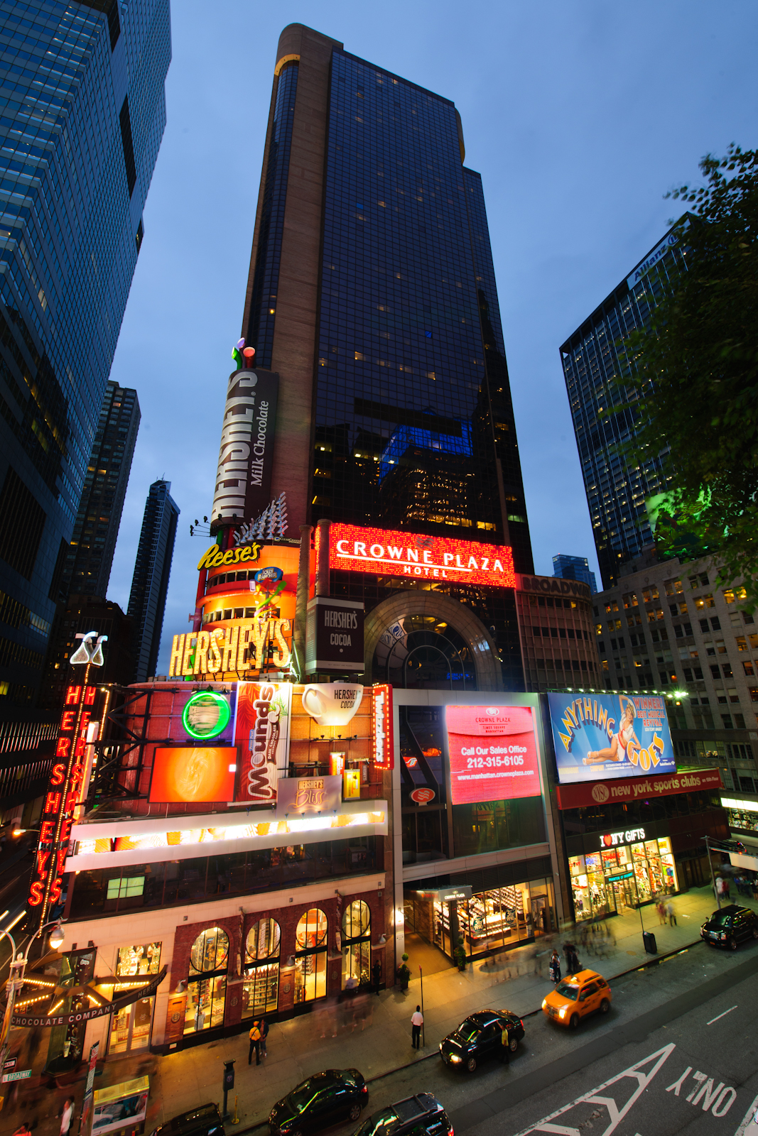 46 Floor hotel located on Broadway in Times Square